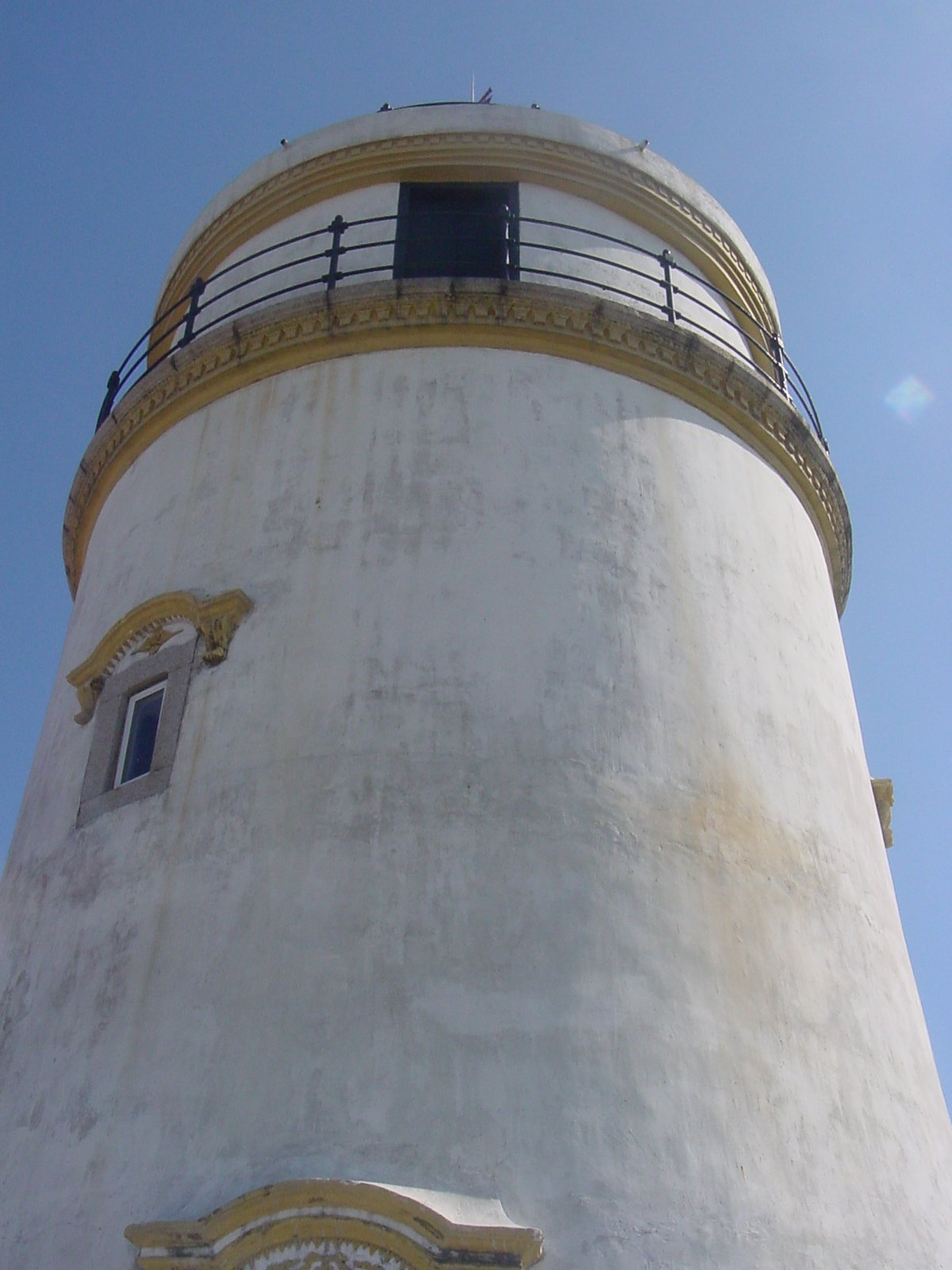 Lighthouse, Guia Fortress, Macau, China.